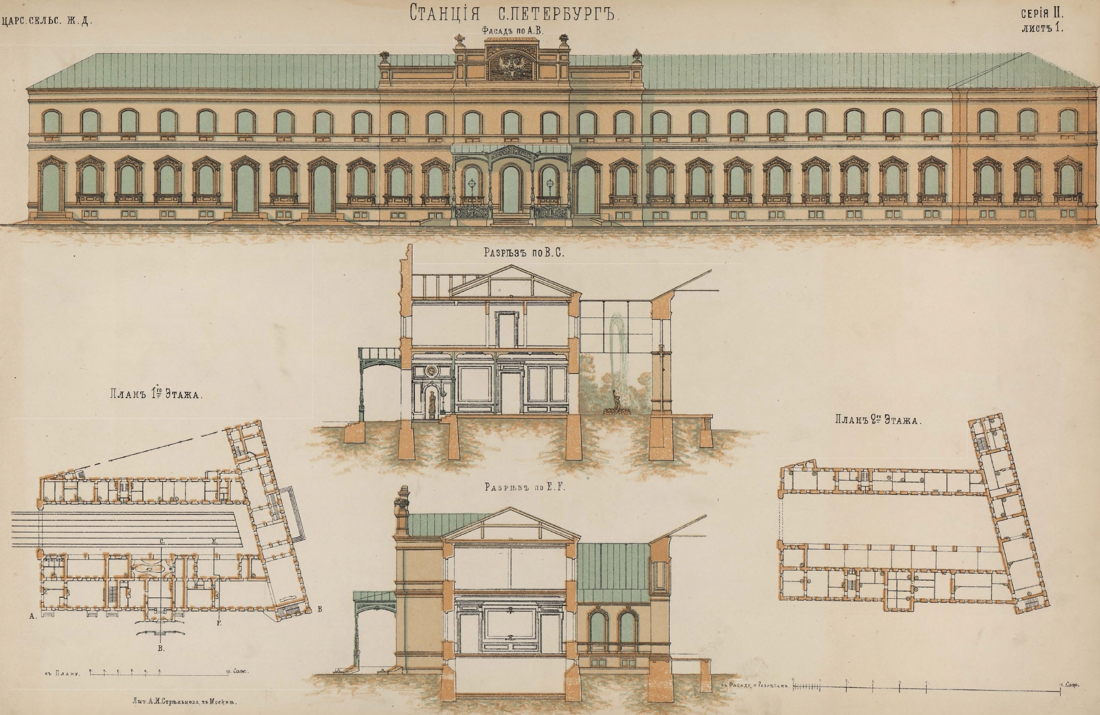 Saint Petersburg station. Tsarskoye Selo railway.